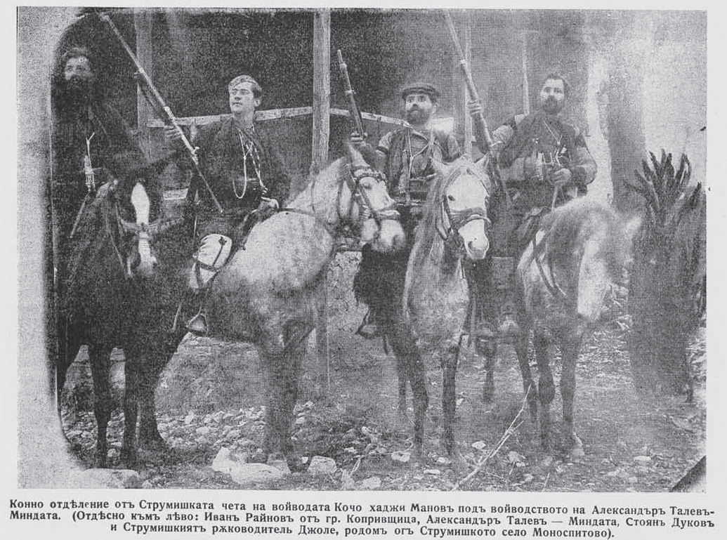 Bulgarian revolutionary cheta of IMARO of Kocho Hadzhimanov: (from left to right) Ivan Raynov, Alexander Talev - Mindata, Stoyan Dukov and Dzhole from Monospitovo